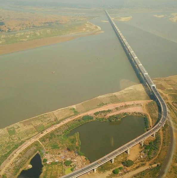 Jppul patna